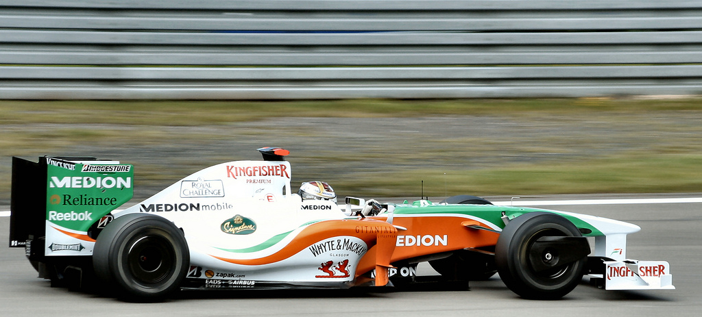 Adrian Sutil driving for Force India at the 2009 German Grand Prix.